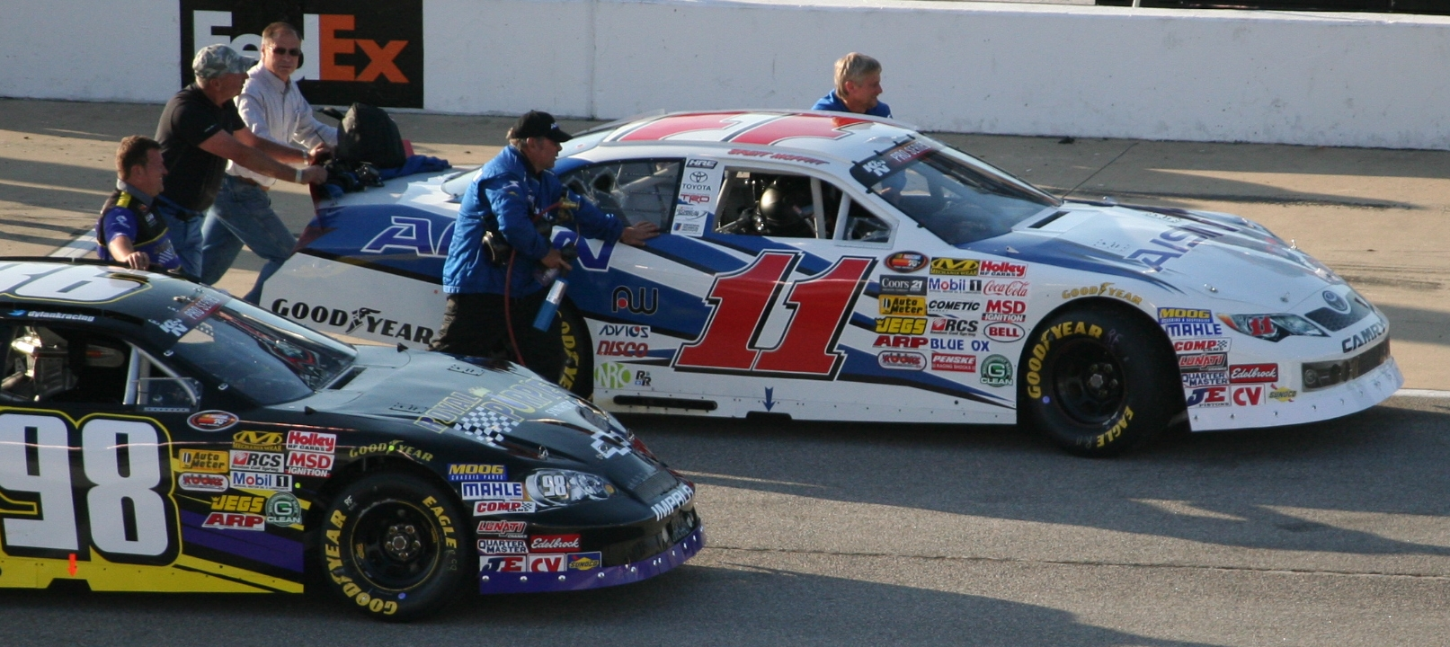 Brett Moffitt's No. 11 Toyota is pushed on pit road at Richmond International Raceway before the NASCAR K&N Pro Series East Blue Ox 100, April 25 2013.